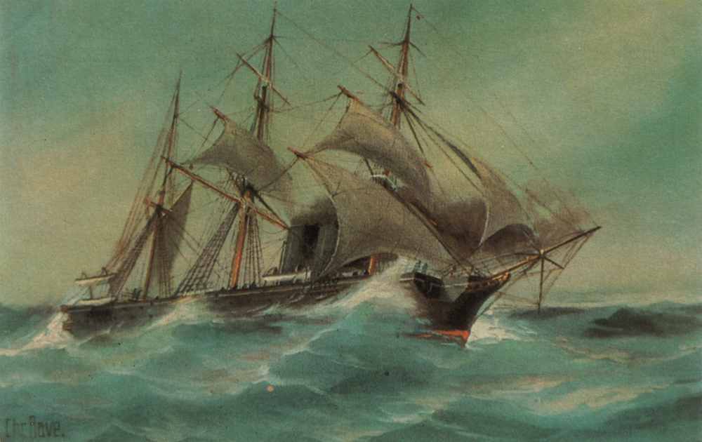 The German corvette SMS Sophie painted by Christopher Rave.